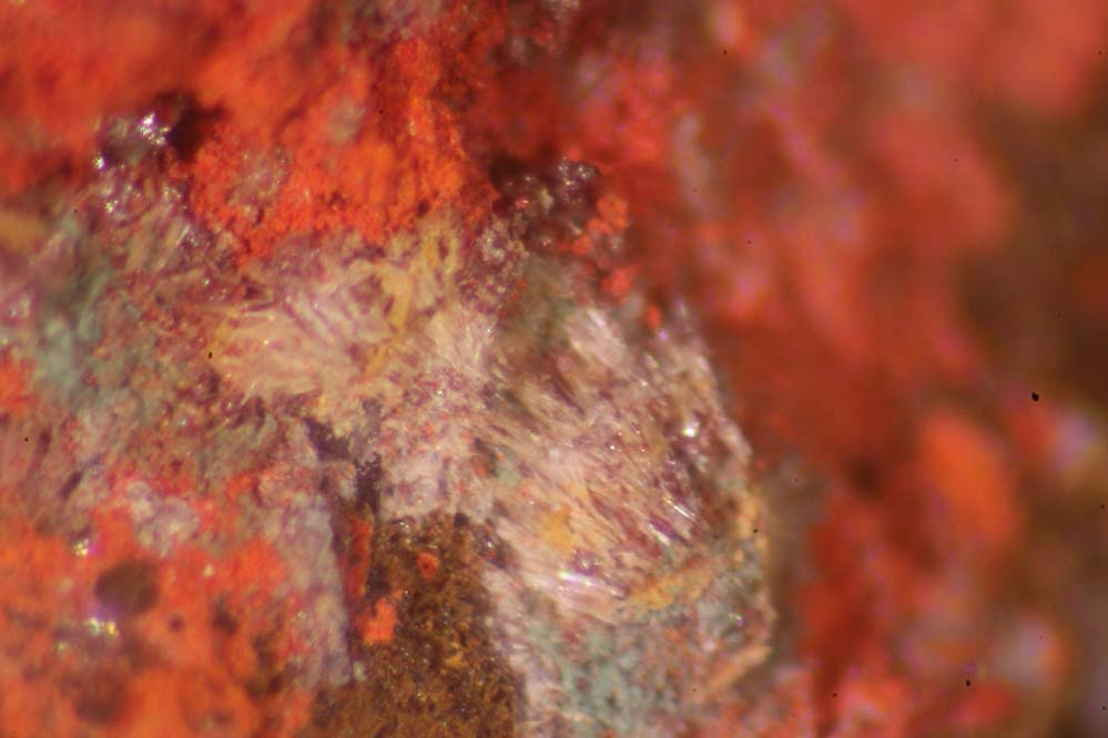 Extremely rare mercury mineral (Hg3S2Cl2) known from only two localities worldwide, being this Spanish locality (Oriental Mine, Chóvar, Valencian Community, Spain) the best by far, in size and quality of the crystals. Kenshuite is present as pinkish yellow acicular crystals of prismatic habit associated to massive cinnabar and malachite. See an excellent article on the locality in Mineral Up 2007/1 p.46-49.